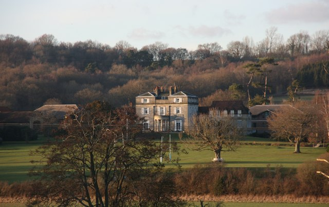 Ashdown House Ashdown House is one of the leading preparatory schools in the country, catering for boys and girls between 7 and 13. Founded in 1843, it is also one of the oldest.